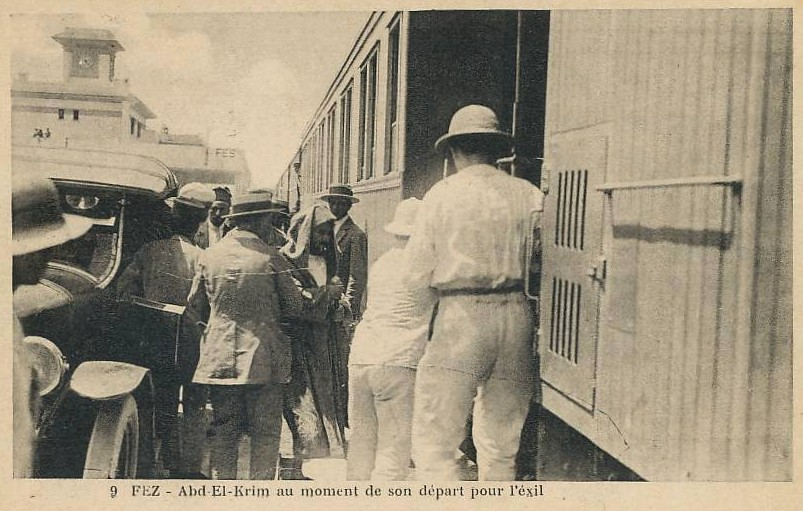 Anti-colonial insurgent Abd el-Krim boarding a Fez-Tangier train in 1926 on his way to exile to the Indian Ocean island of Réunion. Contemporary postcard.